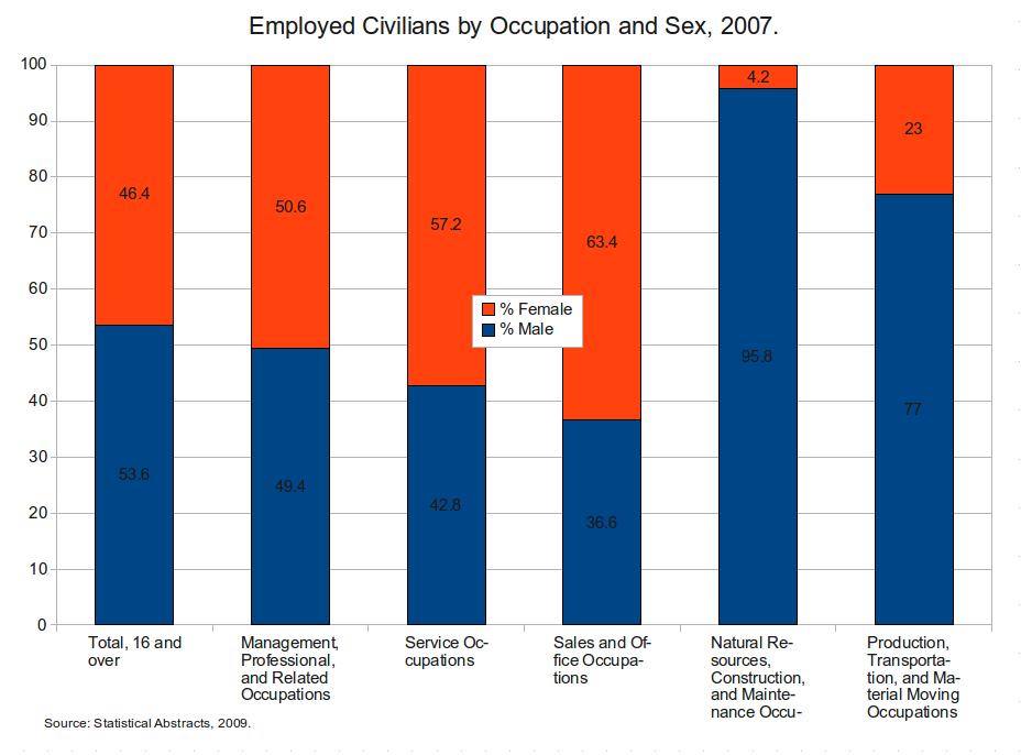 This is a chart showing employed civilians by occupation and sex in 2007. Source: Statistical Abstract 2009.